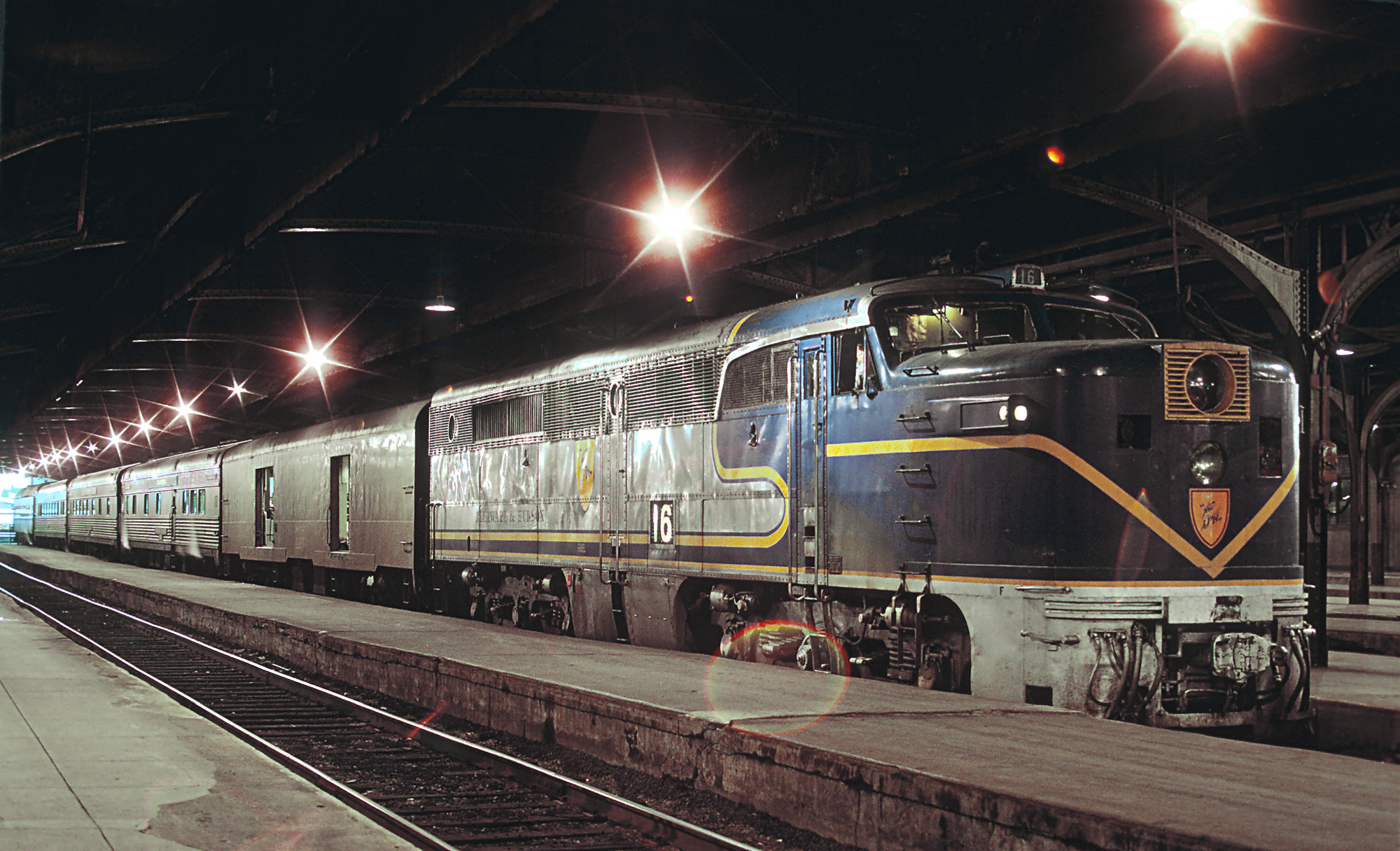 D&H PA-1 16 with The Montreal Limited, Windsor Station, Montreal, Que. on August 27, 1970. I wish I knew who took this spectacular photo. I have asked Roger Puta's friends and they do not know. So for now I'll credit Roger Puta's Collection.